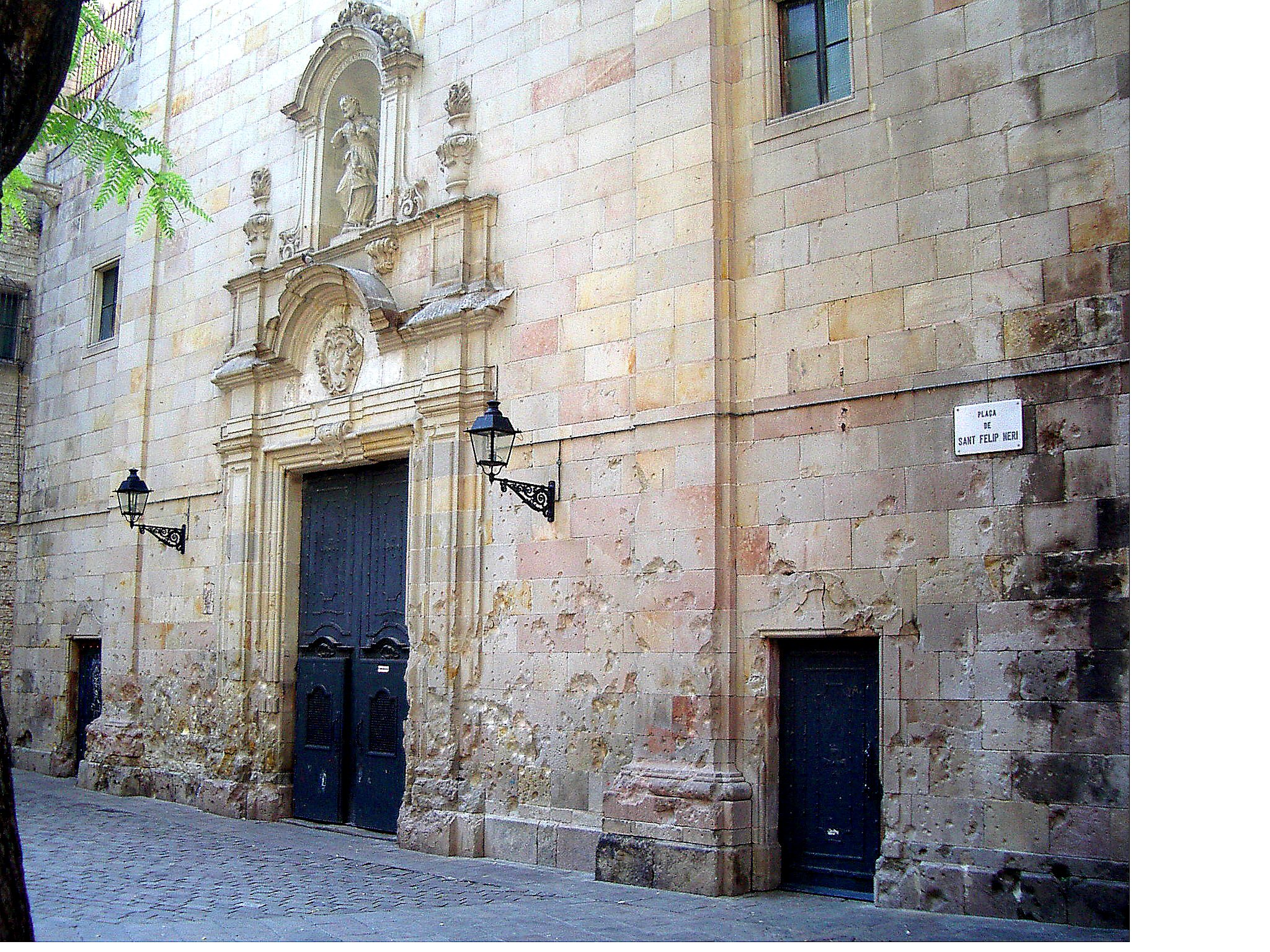 The bullet holes at the front side of the church Sant Felipe Neri are a reminder of the Spanish civil war. This place is home to Nuria Montfort, a literary character of Carlos Ruiz Zafón's novel "The Shadow of the Wind"